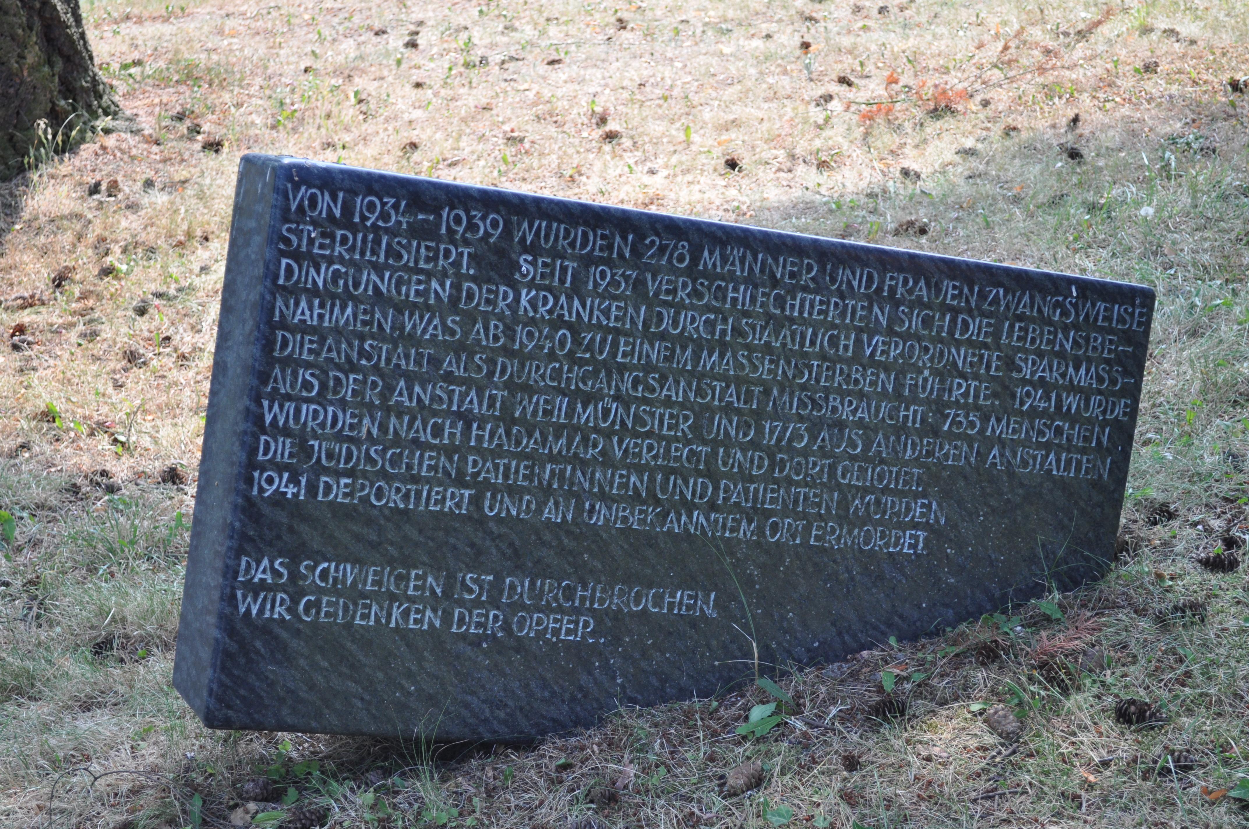 Memorial to reminder on compulsory sterilization in nazi time in Klinikum Weilmünster, Hesse, Germany